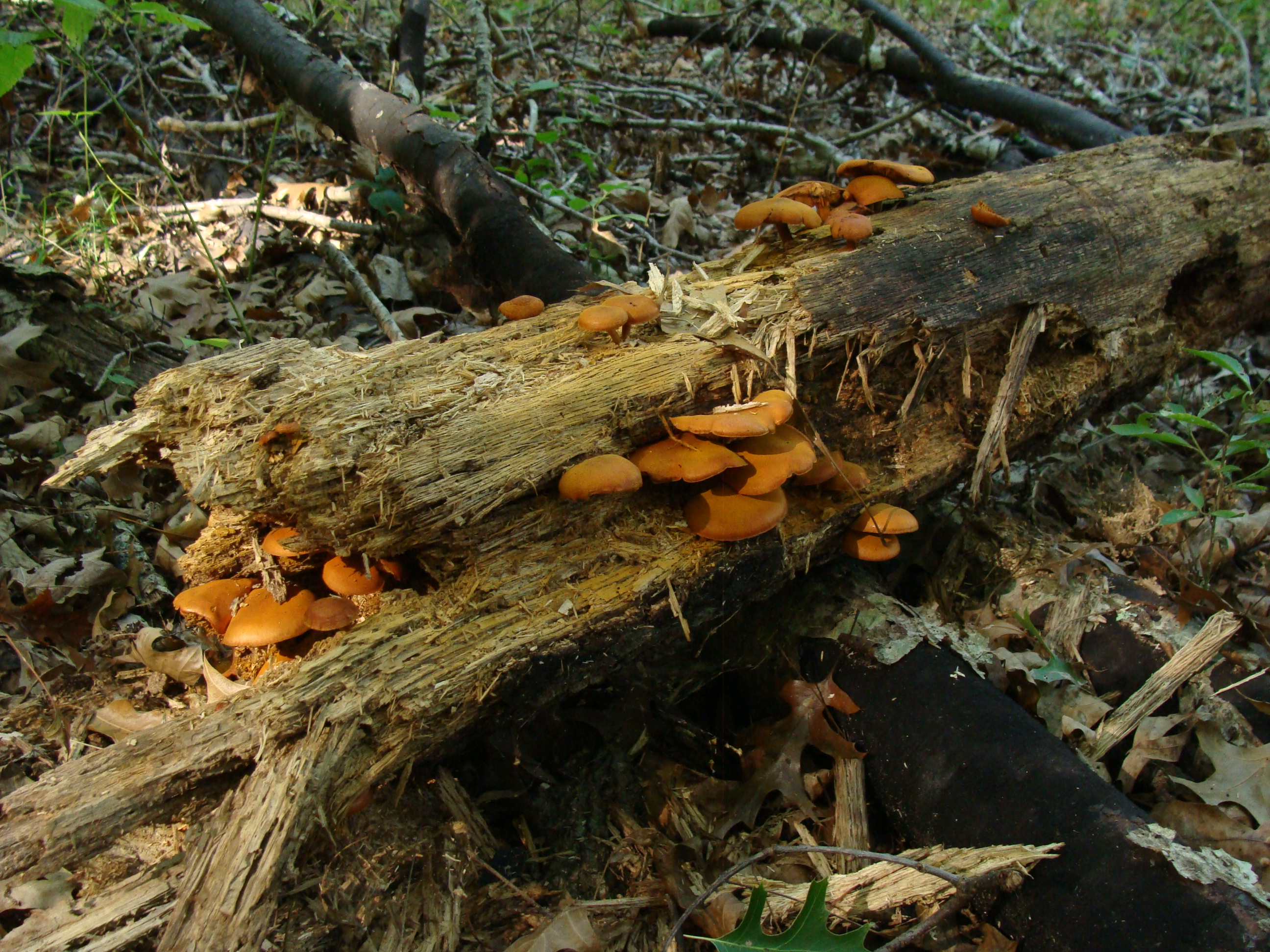 Gymnopilus liquiritiae (Persoon: Fries) Karsten Location: Mingo Wildlife Refuge, near Puxico, Missouri, USA For more information about this, see the observation page at Mushroom Observer.